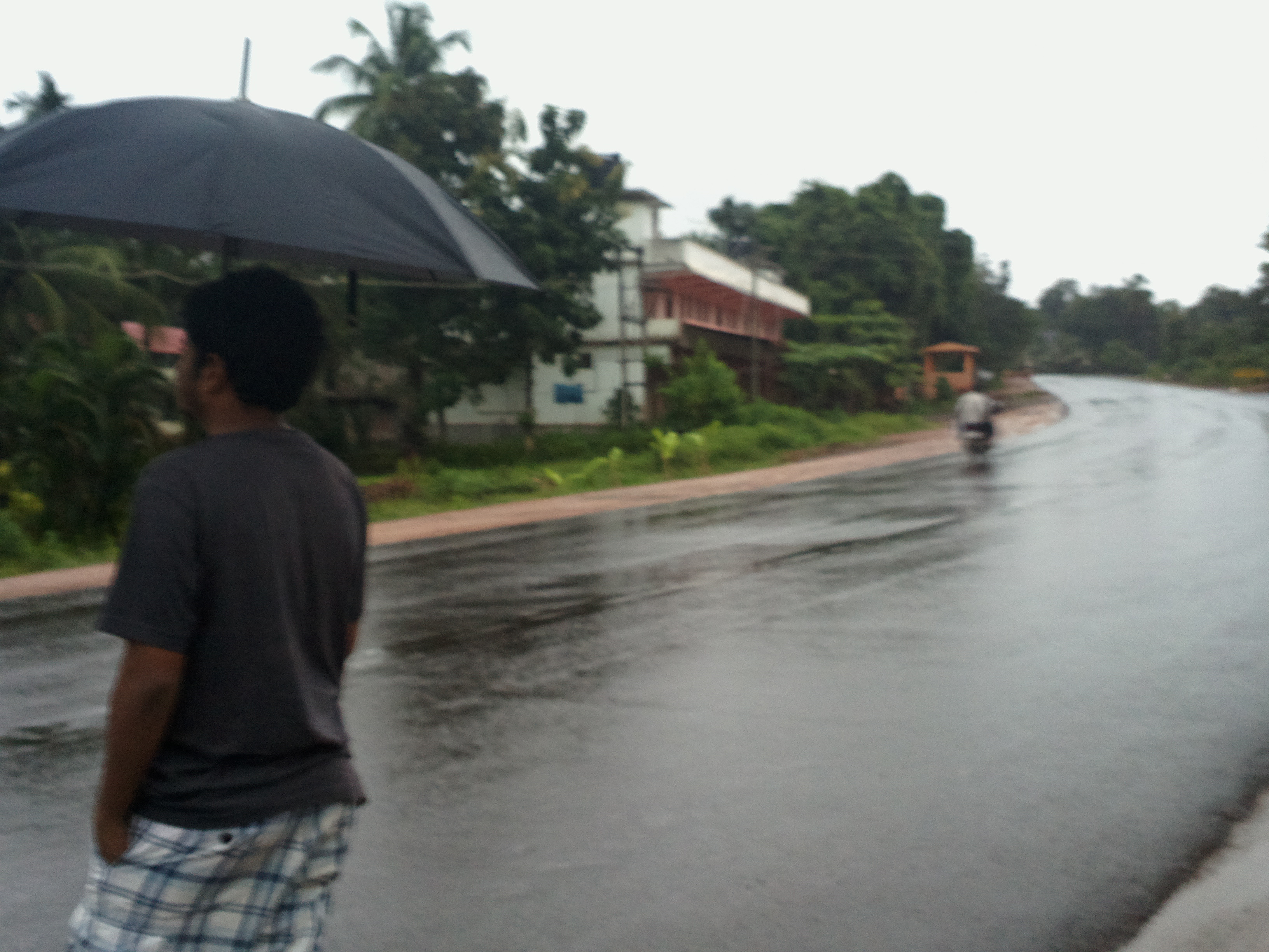 This is a state highway near the St. joseph church in Belmannu. This highway connects Manglore and Karkala.